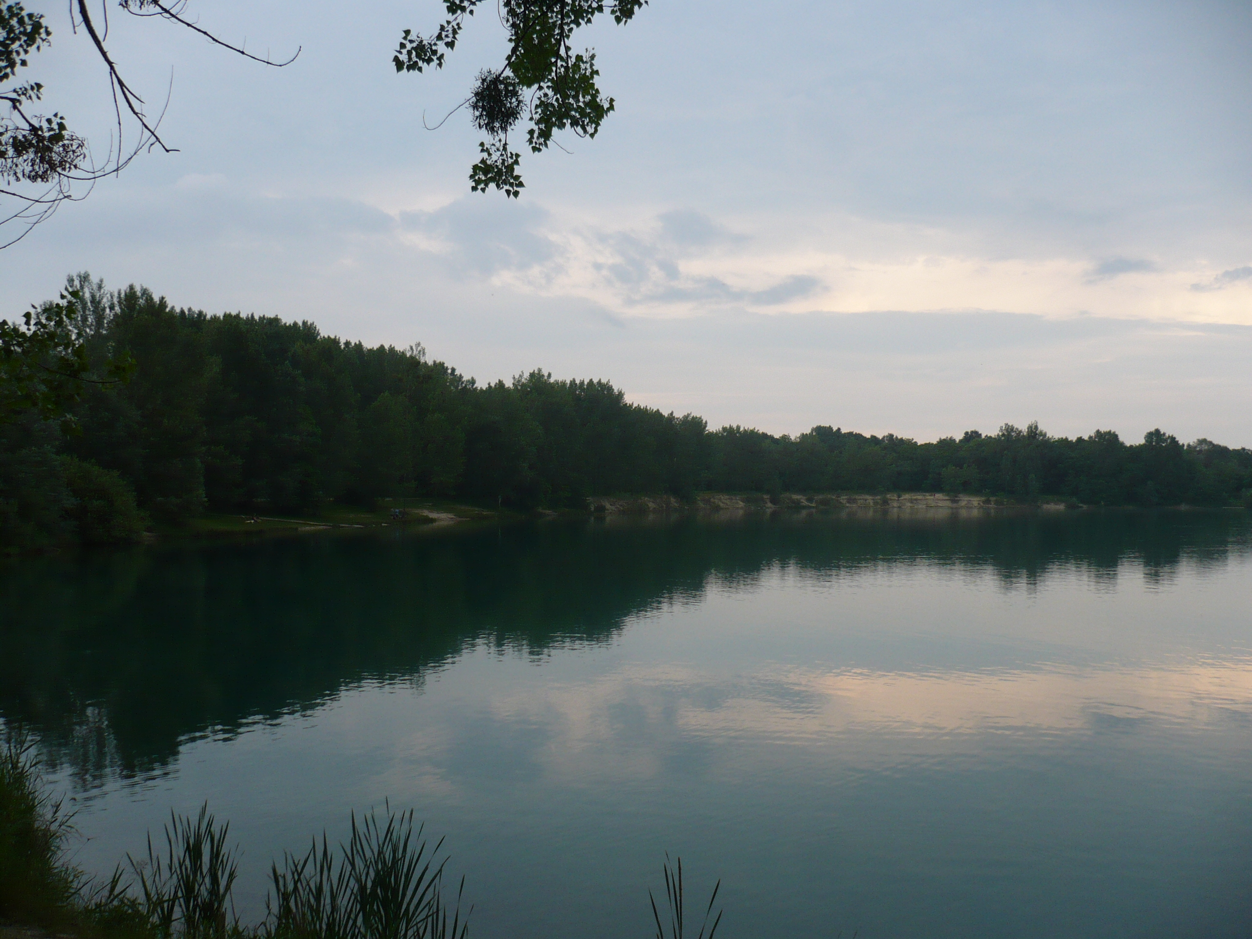 Strkovka lake, Ivanka pri Dunaji, Slovakia